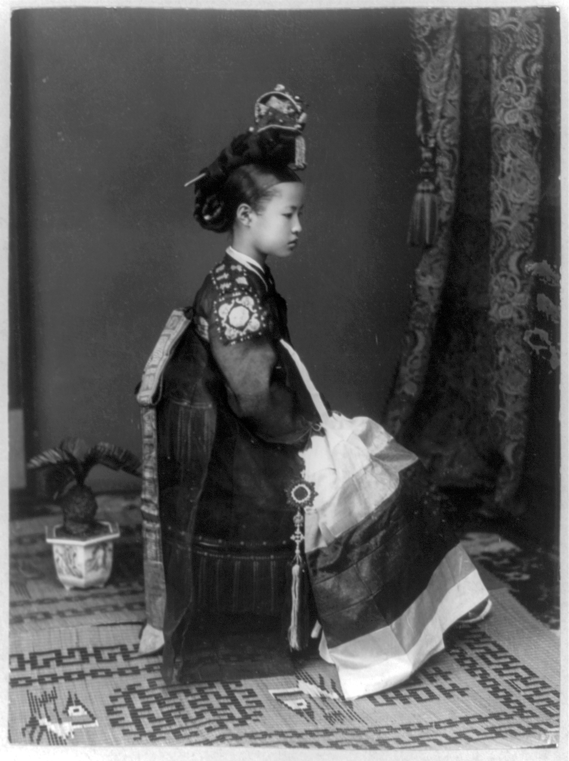 Kisaeng TITLE: Korea CALL NUMBER: LOT 11356-3 [item] [P&P] REPRODUCTION NUMBER: LC-USZ62-79991 (b&w film copy neg.) RIGHTS INFORMATION: No known restrictions on publication. SUMMARY: Kisaeng of palace. Full lgth., seated, (8 - facing right - right side of face is most visible.) MEDIUM: 1 photographic print. CREATED/PUBLISHED: [between 1910 and 1920] NOTES: Title and other information transcribed from caption card and item. LOT subdivision subject: Korea. Frank and Frances Carpenter Collection (Library of Congress). Caption card tracings: Korea -- Misc. -- 1910-1920; Shelf. FORMAT: Photographic prints 1910-1920. REPOSITORY: Library of Congress Prints and Photographs Division Washington, D.C. 20540 USA DIGITAL ID: (b&w film copy neg.) cph 3b26987 CONTROL #: 2001705585